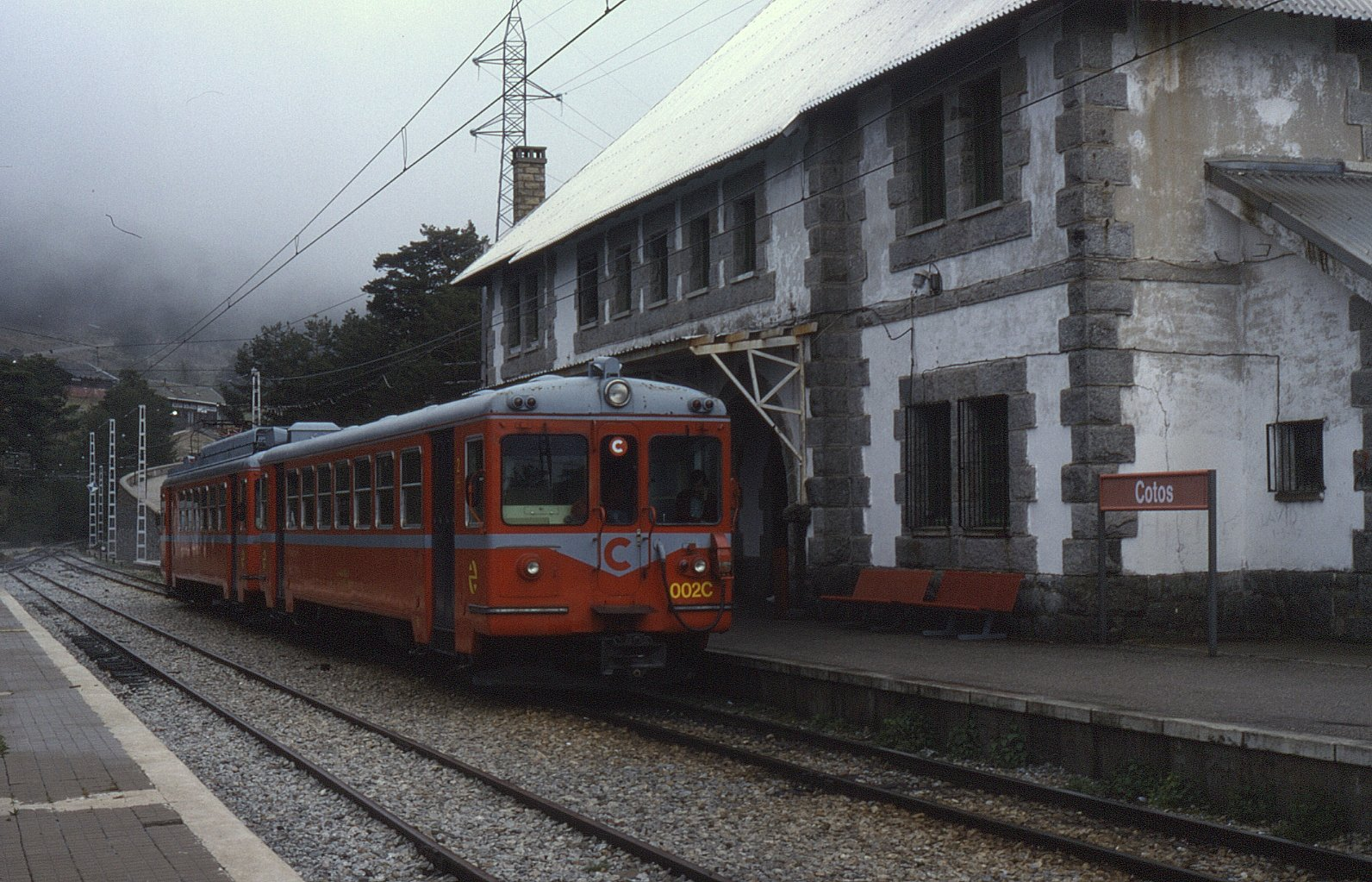 These units work an 18km line from Cercedilla to Cotos. Known as Ferrocarril Eléctrico del Guadarrama. It is the only metre gauge RENFE line and also unique voltage, 1500V the line climbs to around 1,800 metres above sea level. This view of 442.002 was taken on 18 April 1997 at the terminus, Cotos.